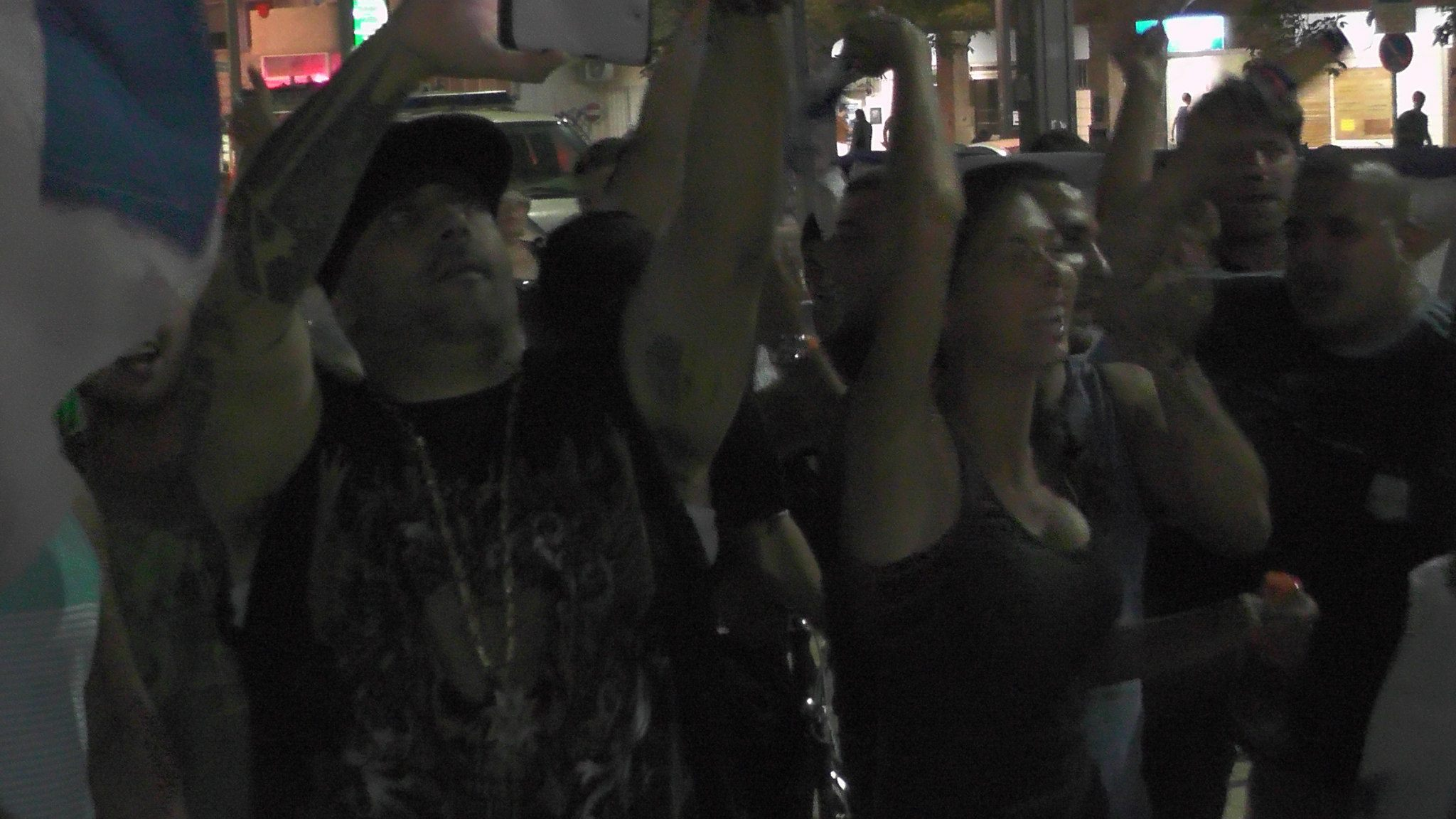 Yoav Aliasi holding a camera against peace activists in Tel Aviv